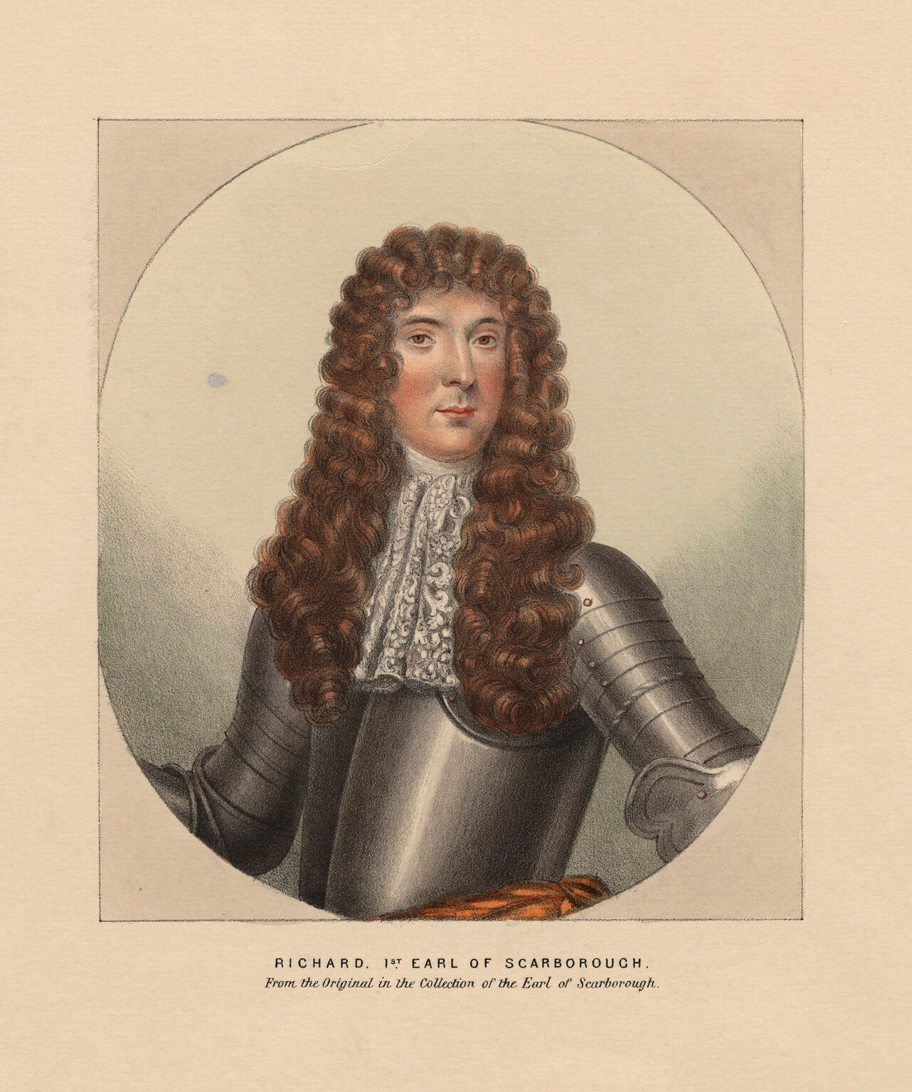 lithograph, 19th century, 12 1/4 in. x 9 1/4 in. (312 mm x 235 mm) paper size